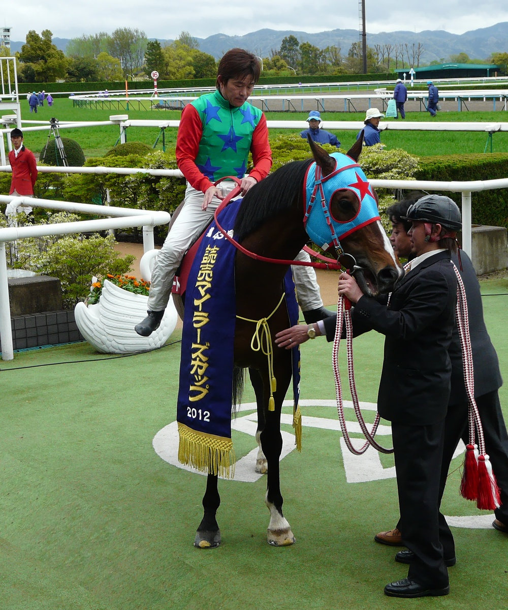 Silport20120422(2)